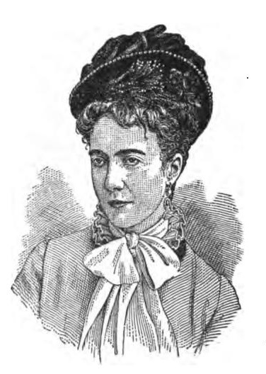 "Miss Fanny Parnell" -- an illustration accompanying a memorial poem "Fanny Parnell". Parnell (1848-1882) was an Irish American poet. From Songs of Liberty, and Other Poems by Dr. John McIntosh. Chicago: Woodward & O'Leary, 1882: p. 28